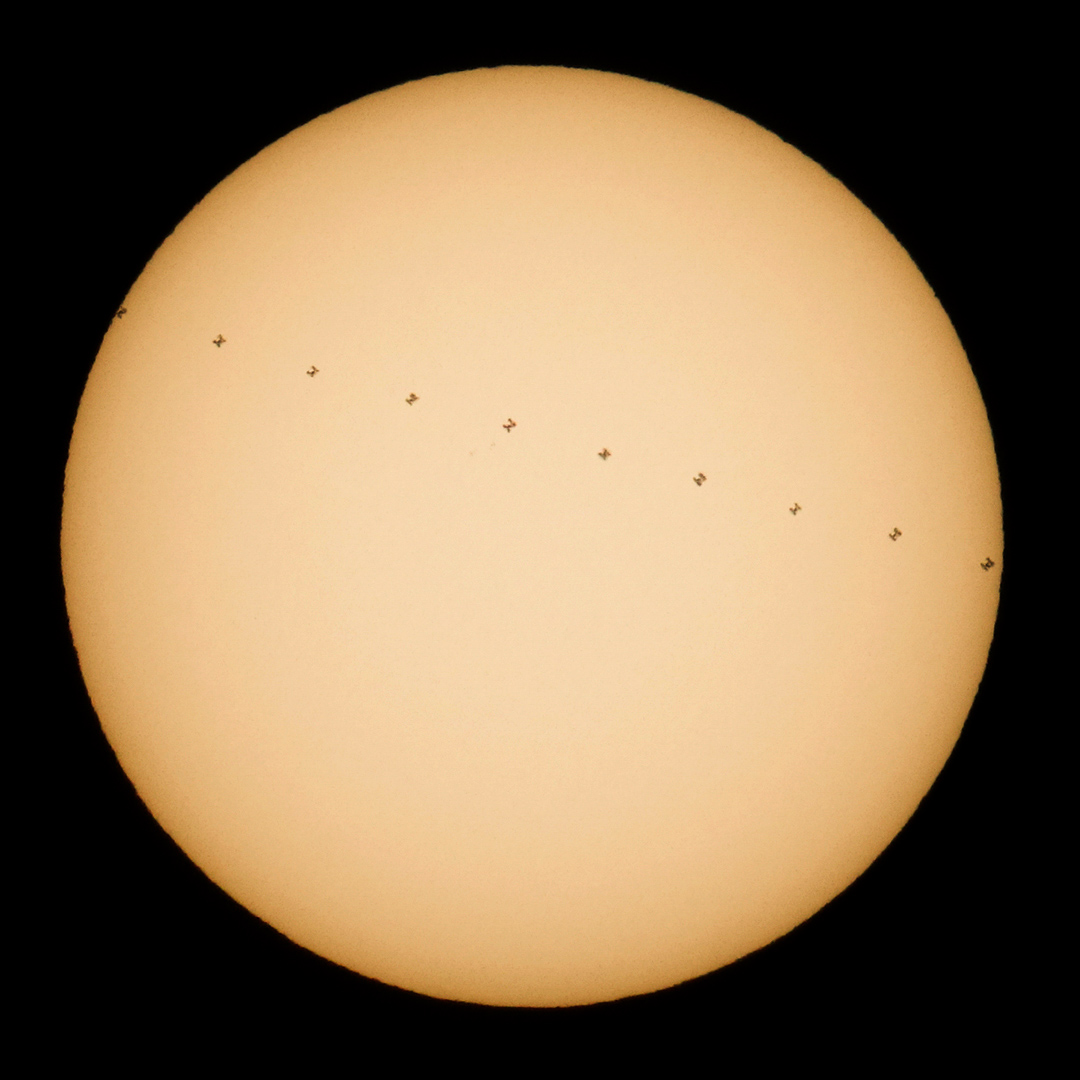 This composite image, made from ten frames, shows the International Space Station, with a crew of six onboard, in silhouette as it transits the sun at roughly five miles per second, Saturday, Dec. 17, 2016, from Newbury Park, California. Onboard as part of Expedition 50 are: NASA astronauts Shane Kimbrough and Peggy Whitson: Russian cosmonauts Andrey Borisenko, Sergey Ryzhikov, and Oleg Novitskiy: and ESA (European Space Agency) astronaut Thomas Pesquet.